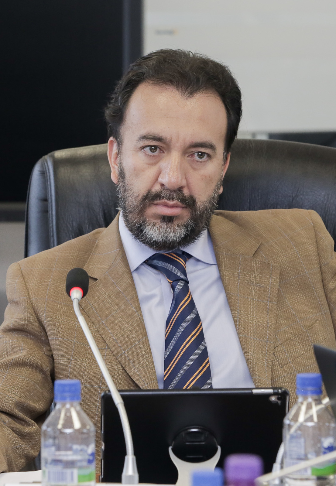 14 de junio de 2017 - Sesión de la Comisión de Régimen Económico Tema: - Tratamiento y debate del proyecto de Ley Reformatoria a la Ley de Minería. - Tratamiento y debate del proyecto de Ley Reformatoria al Código Orgánico Monetario y Financiero. - Tratamiento y debate del proyecto de Ley Reformatoria al Código Orgánico de Planificación y Finanzas Públicas. - Tratamiento y debate del proyecto de Ley de Reparación de Daños a los Depositantes Afectados por el Decreto 685 Fotografía: Alberto Romo/Asamblea Nacional